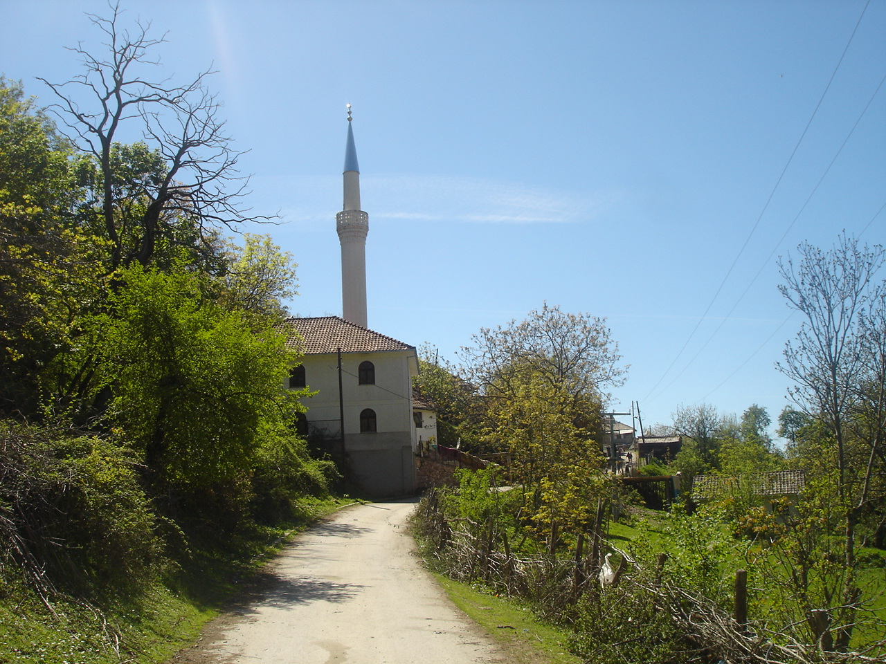 Mosque on the entrance of the village of Dolgaš, in Centar Župa Municipality, near Debar, Macedonia